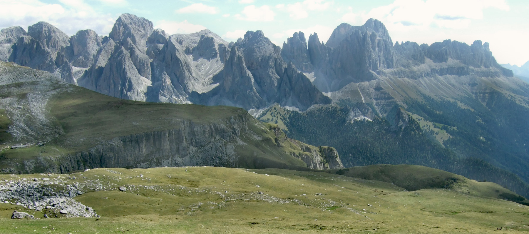 Schlern mountain Völs am Schlern, (South Tyrol), on the summit - view towards the Rosengarten